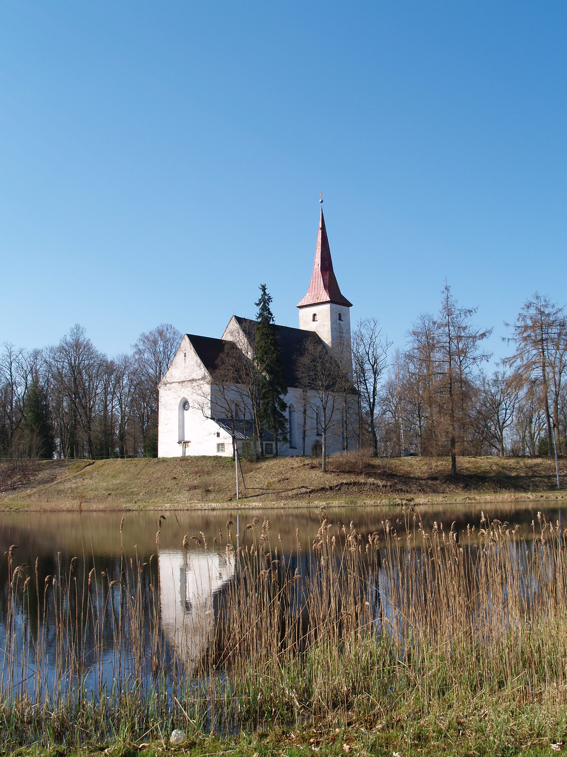 Suure-Jaani Church, Estonia.